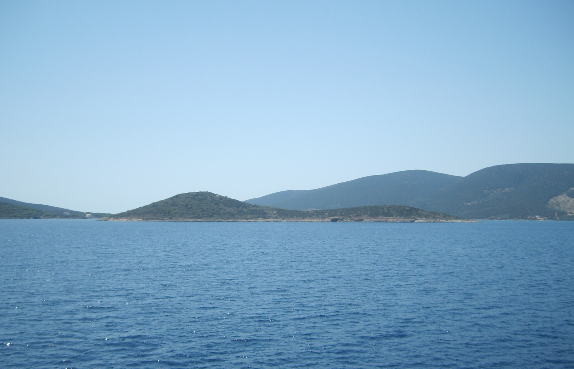 Tragonisi Island, Petalii Group, Southern Euboean Gulf, Greece